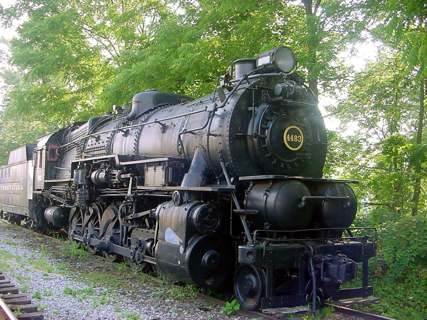 Photo of Pennsylvania Railroad Steam Locomotive #4483 currently on display at Hamburg